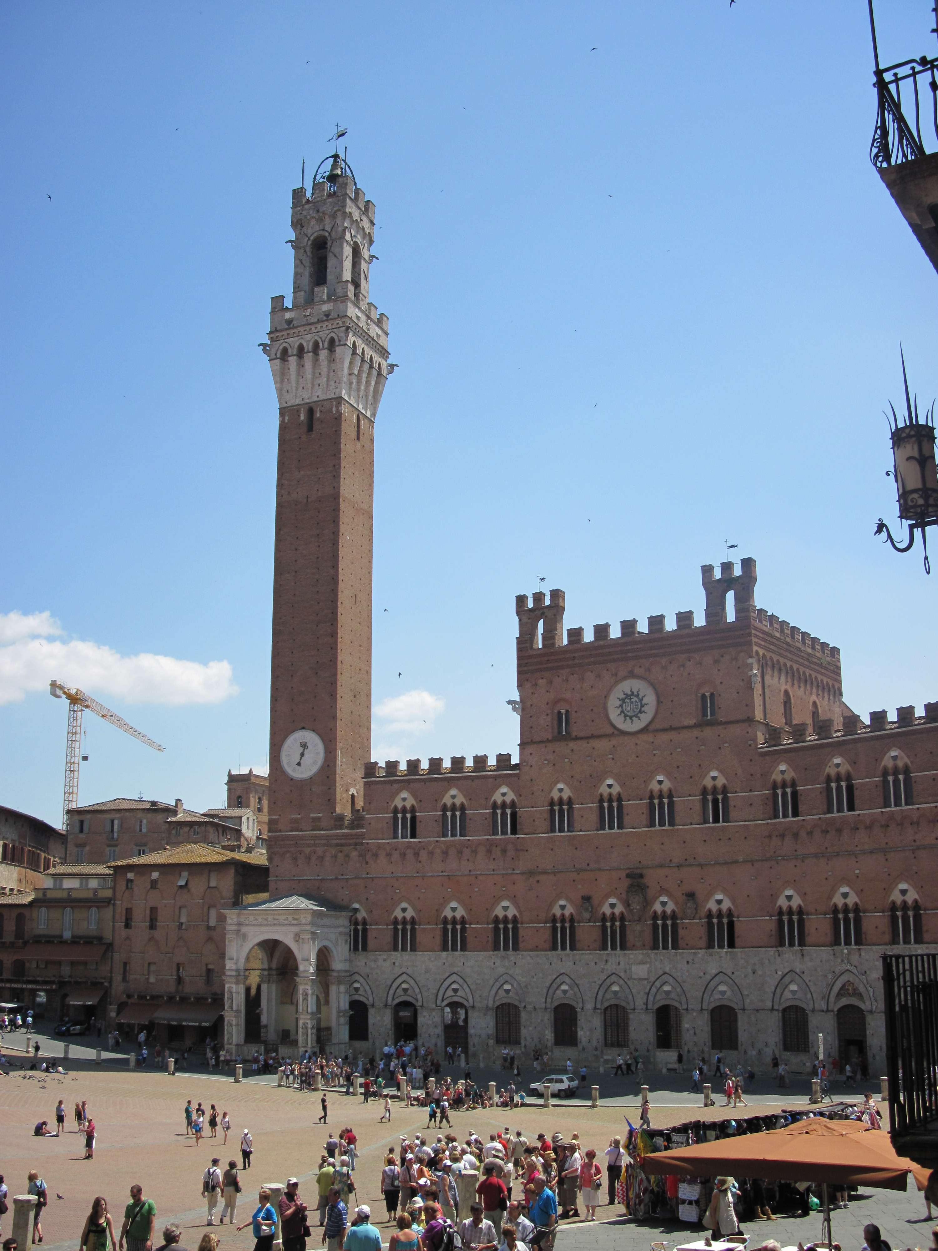 Palazzo Pubblico.. Torre del Mangia.